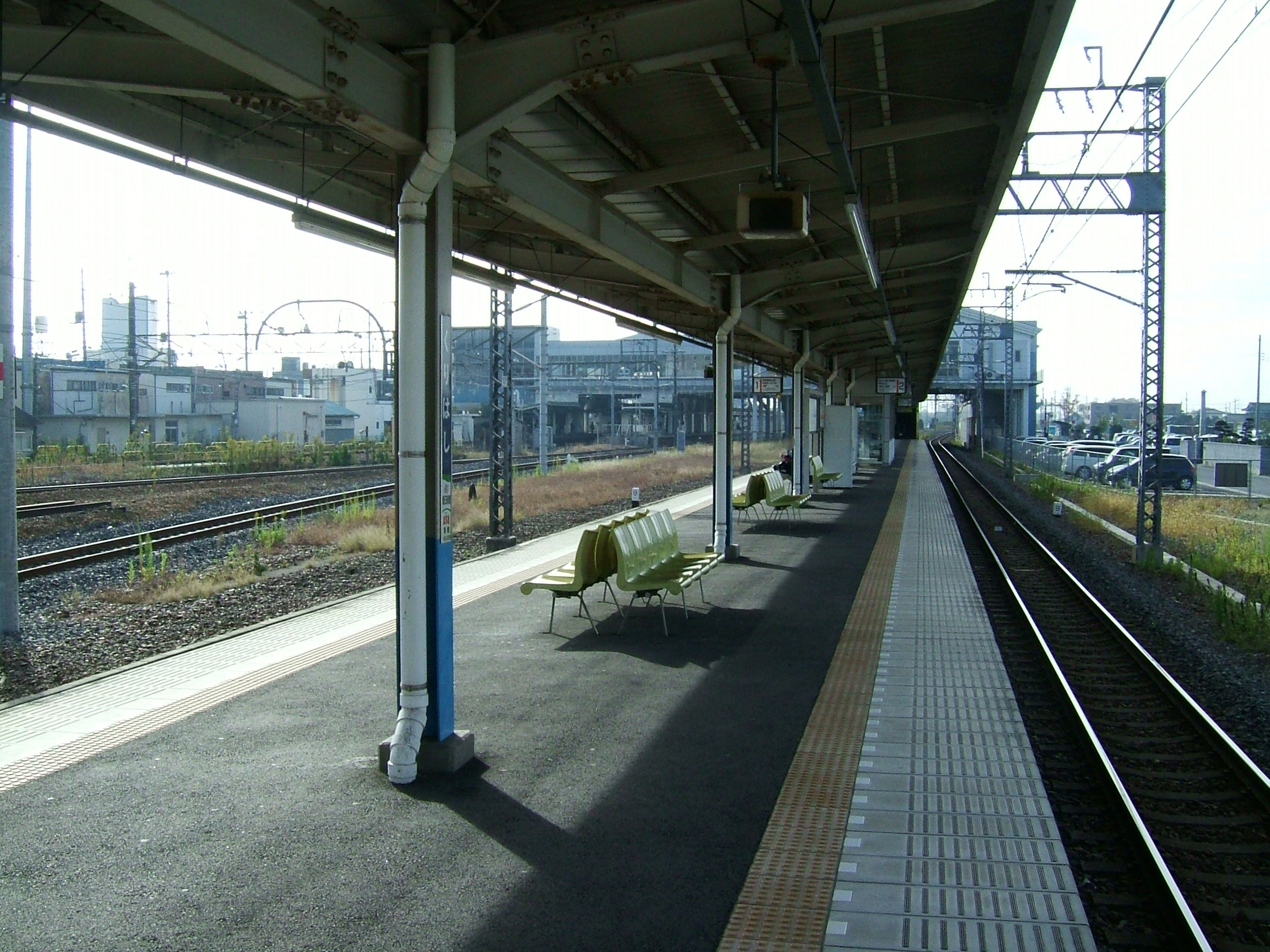 Kurihashi Station platform (Tōbu Railway Nikkō Line)